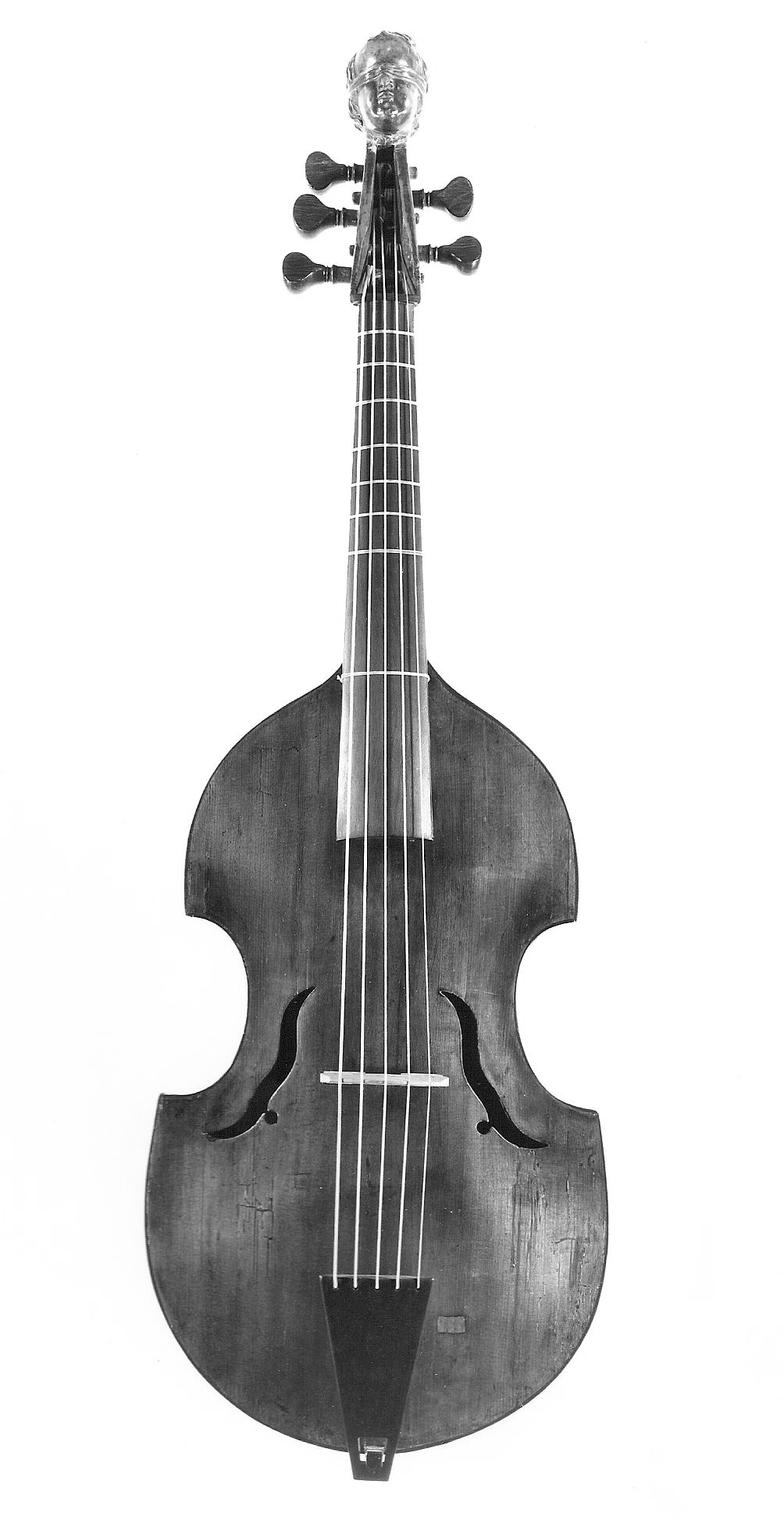 German; Viola da Braccio; Chordophone-Lute-bowed-fretted